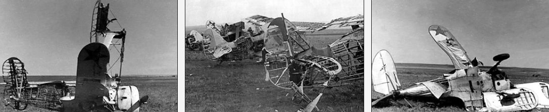 Red Army Polikarpov I-153 airplanes of IAP-55 destroyed on 22 June 1941 at Balti airfield